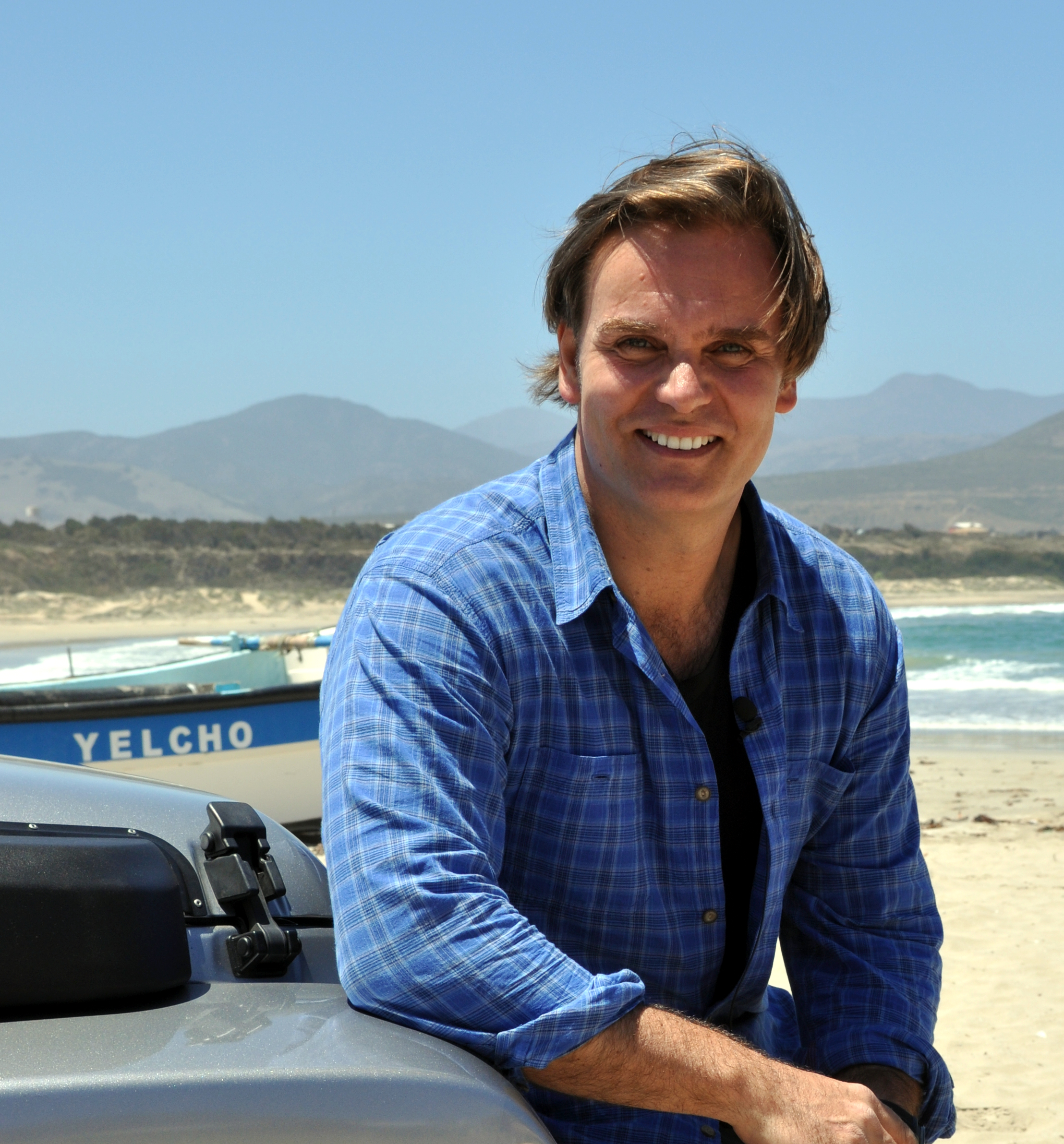 Chilean-Spanish journalist, reporter and news presenter Amaro Gómez-Pablos in Los Molles, during the filming of a television report that Televisión Española (TVE) made about his work in Chile. The journalist often practices scuba diving in Los Molles.